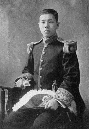 Katsuji Utsumi